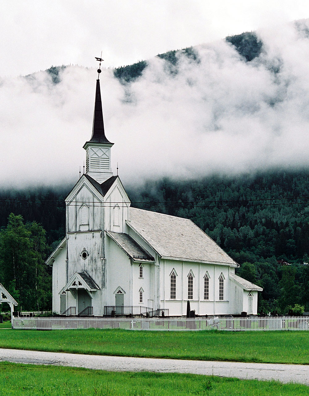 Nore church, Nore og Uvdal, Buskerud, Norway. Built 1879. Architect: Jacob Wilhelm Nordan.